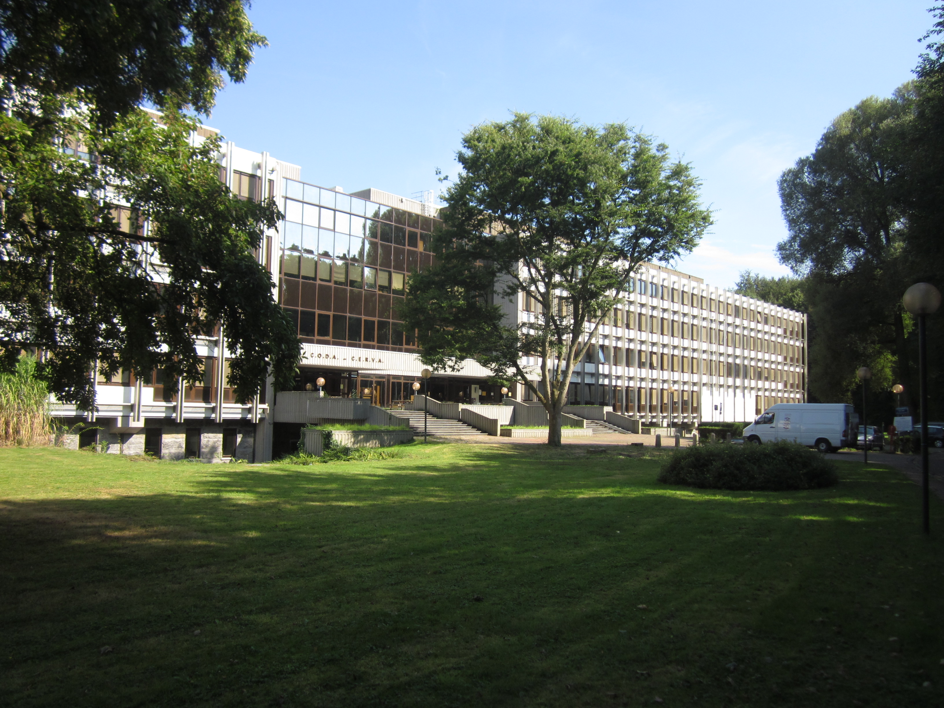 The Centre d'Accueil du Personnel Africain (CAPA) in Tervuren, Flemish Brabant which served as a residence for the Congolese workers at the Expo 58 world fair in 1958. The buildings now house researchers from the Royal Museum for Central Africa.